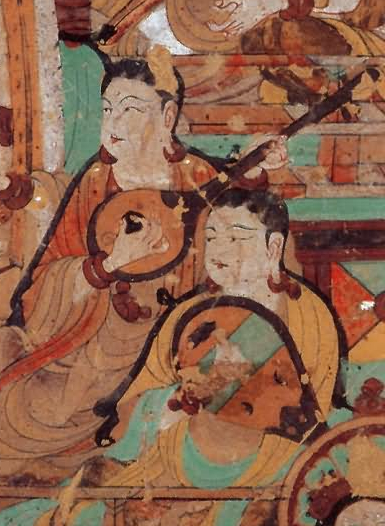 Sanxian type lute (三弦 )(left) and pipa. Trimmed from a larger painting, found in Mogao caves near Dunhuang―Grotto 46 Left interior wall, second panel. Also called cave 112.